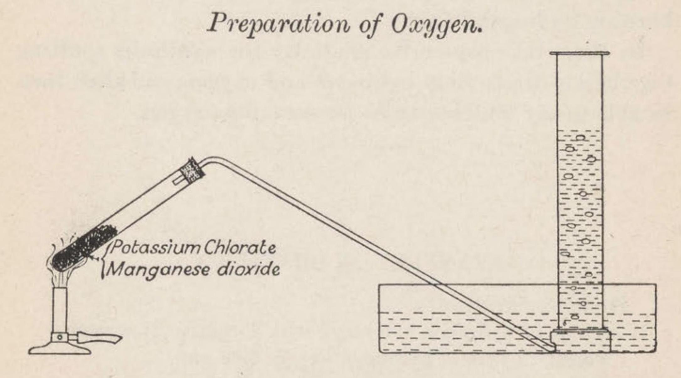 This is an experiment setup with a test tube, a burner, a glass pipe, a glass jar, and a glass container to generate and collect oxygen by heating the potassium chlorate mixed with a small portion of manganese oxide.